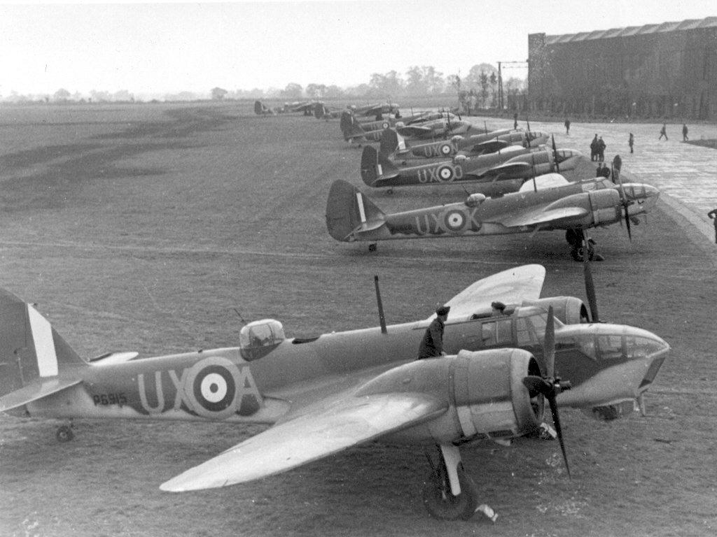 Bristol Blenheims Mk IV in World War II.